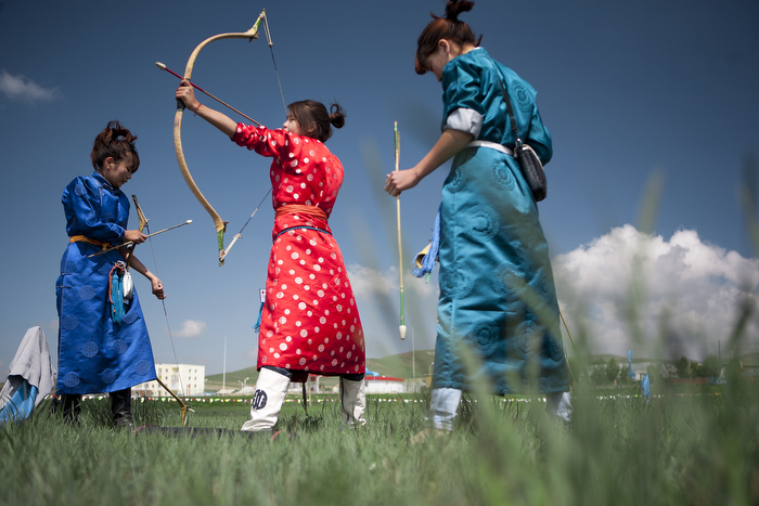 Young Mongolian women practice their archery skills for a Naadam competition. Ugtaal Soum, Tov Province, Mongolia.